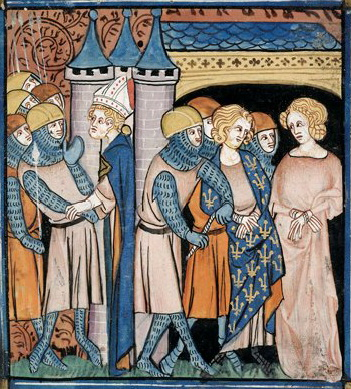 Capture of Charles, Duke of Lower Lorraine and brother of Lothaire of France. (British Library, Royal 16 G VI f. 258)